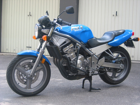 this is a self made pic of my own cb1 taken in 2005